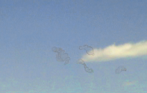 Still from "Floaters" video I made.